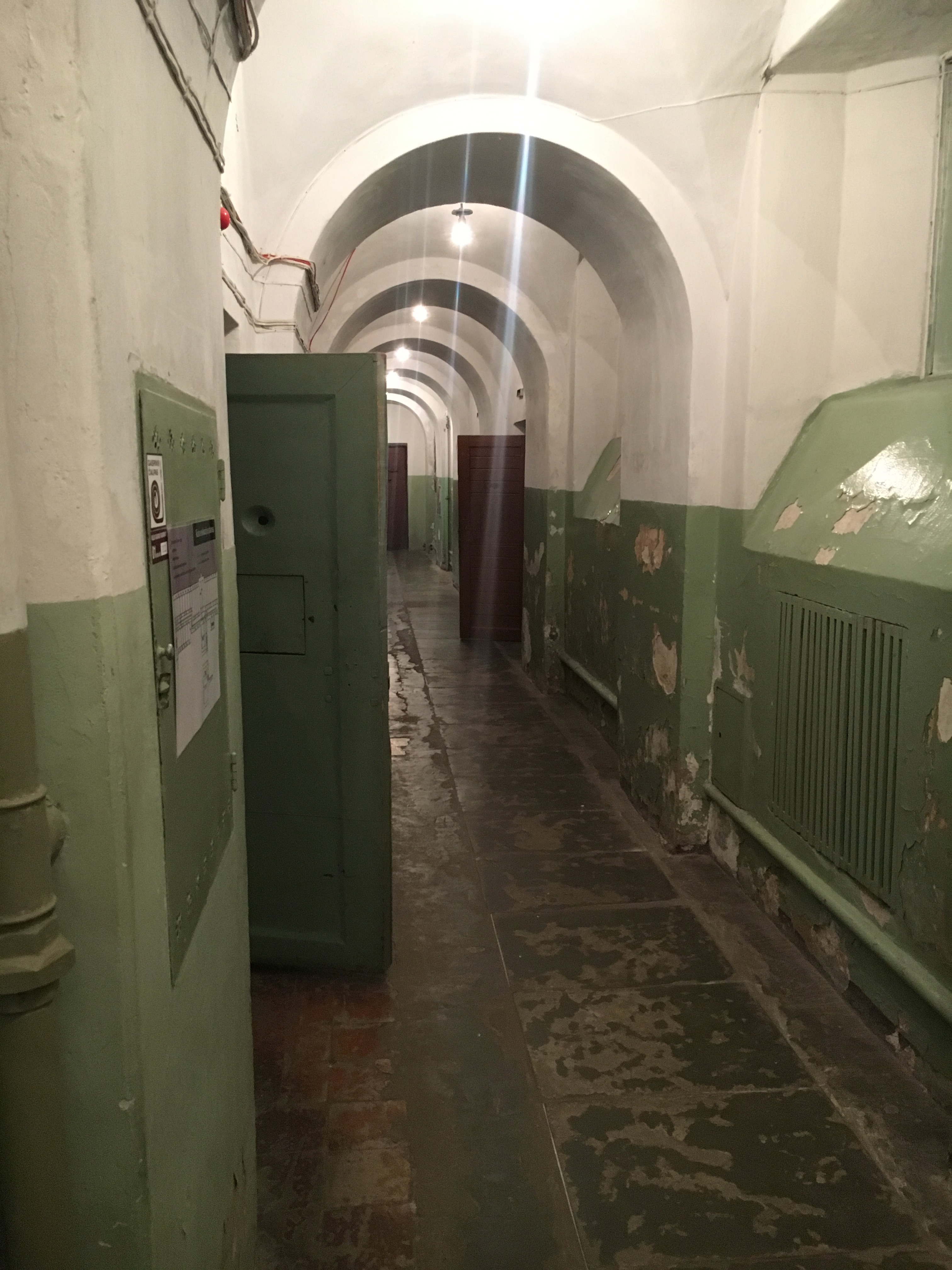 The basement of the Museum of Occupations and Freedom Fights - reconstructed KGB prison cells